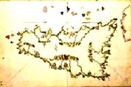 writings of the Arab historian Nowairi with important news on the Arab period in Sicily....